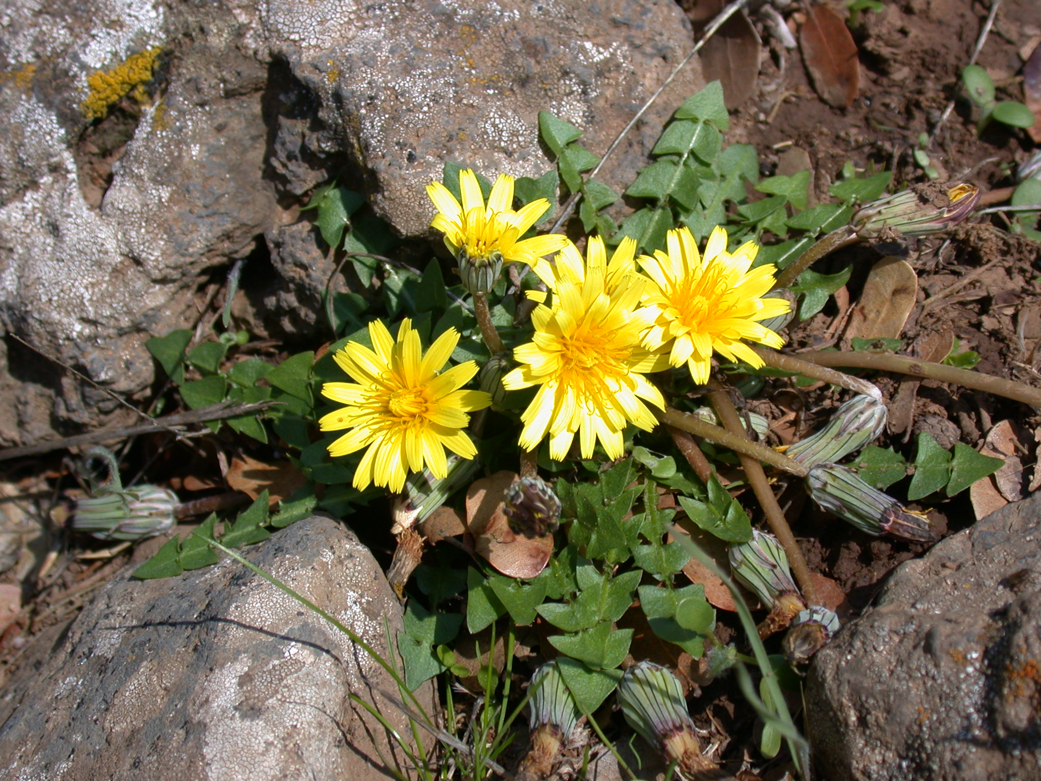 Taraxacum cyprium H. Lindb., Golan Heights, November 8, 2006. Other names: Taraxacum megalorrhizon (Forssk.) Hand.-Mazz. p.p.